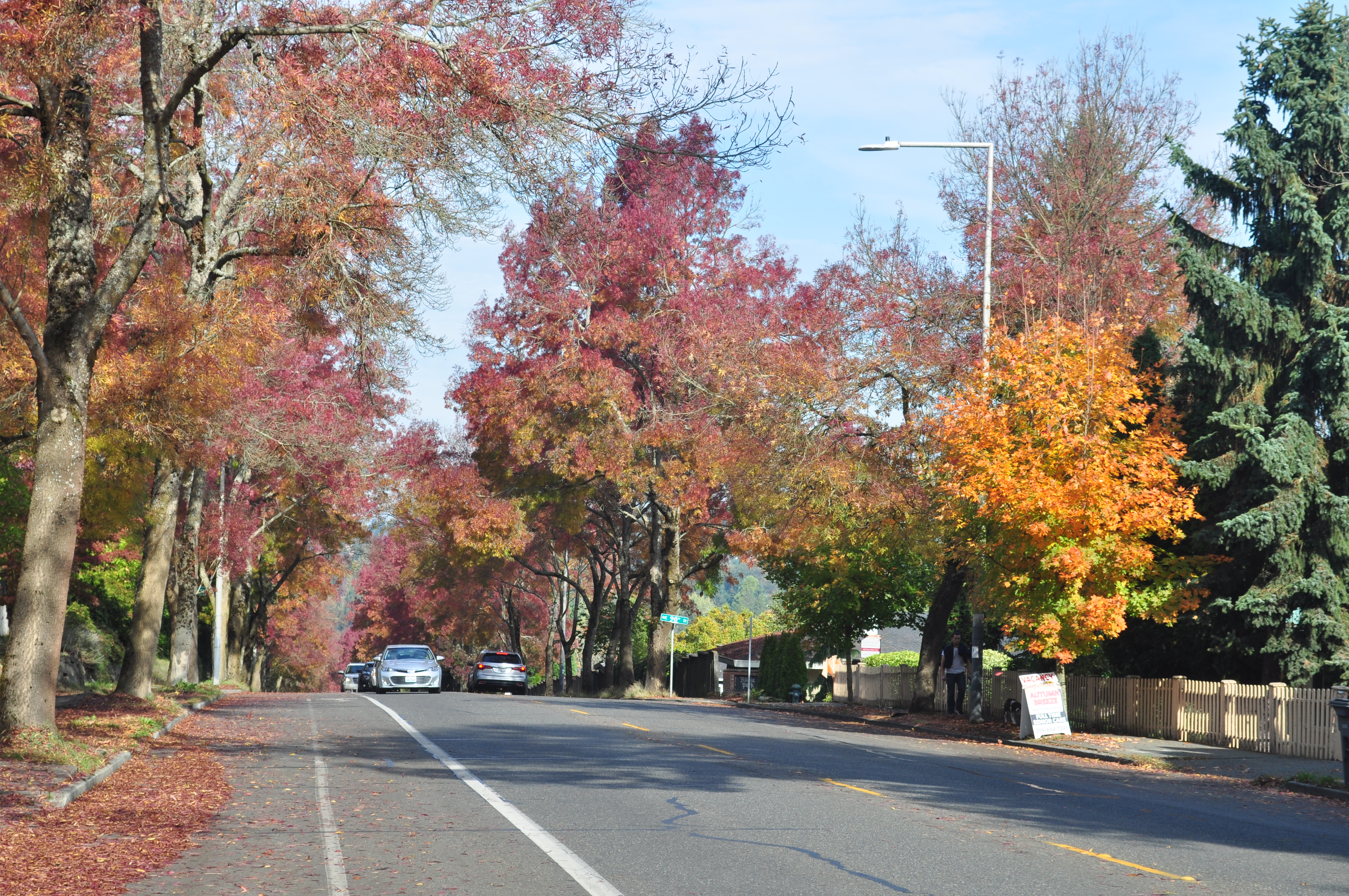 Looking north on 35th Avenue NE from just south of NE 85th Street, Meadowbrook/Lake City, Seattle, Washington. 35th Avenue NE in Meadowbrook is one of the few Seattle streets planted mainly with deciduous trees that provide colorful autumn foliage.